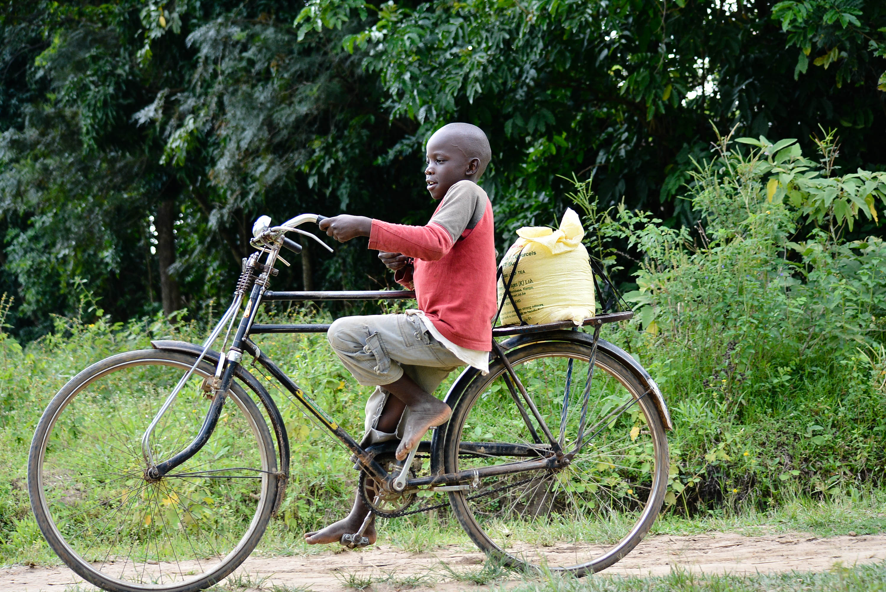 A young lad rides a bicycle carrying maize on the bicycle carrier having come from the posho mill market in a small center called Munami in Kakamega county This is an image with the theme "Africa on the Move or Transport" from: Kenya